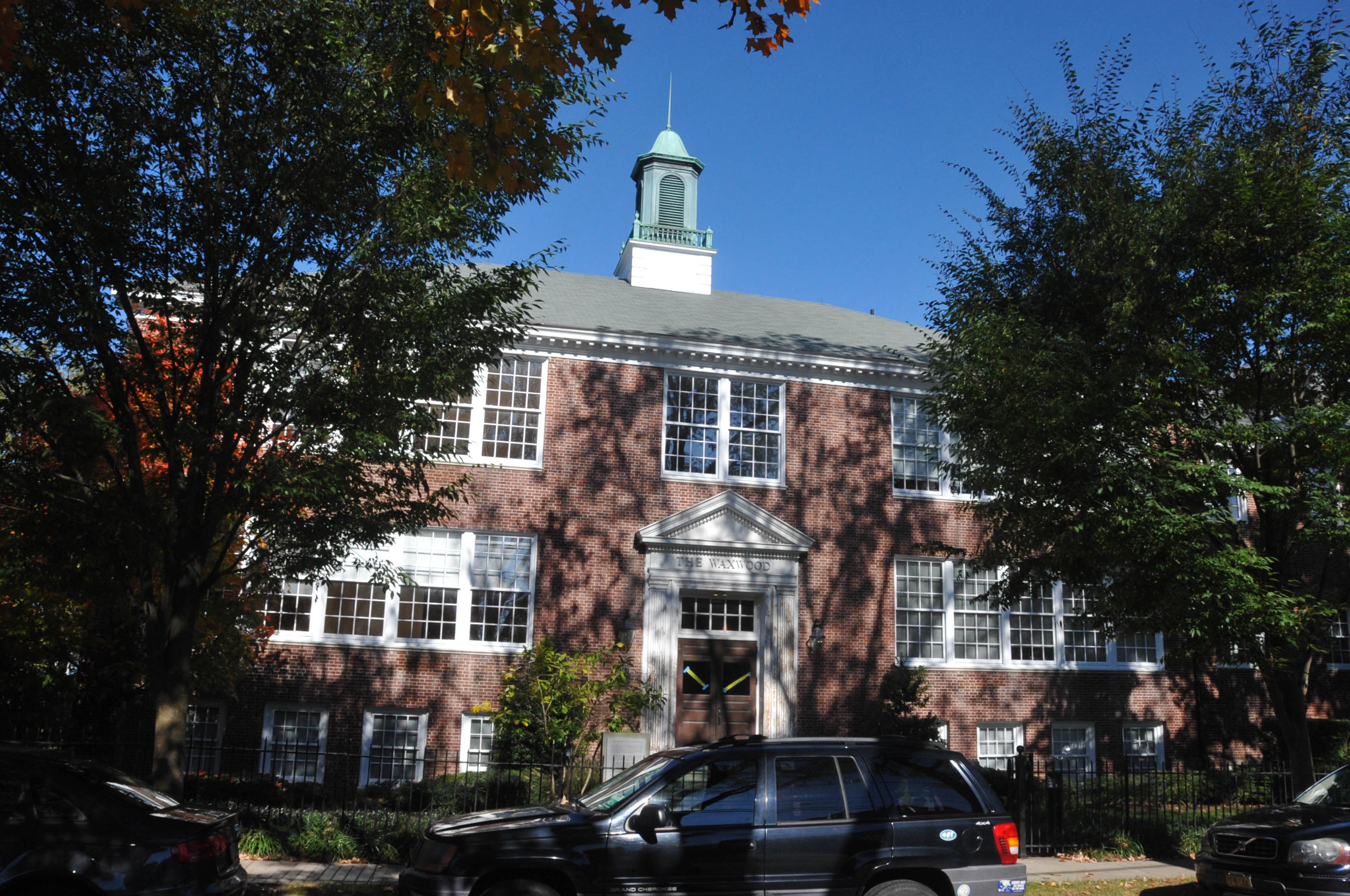 BUILT IN 1908 BUT HAS BEEN RENOVATED SEVERAL TIMES. THE SCHOOL WAS ORIGINALLY BUILT IN 1858 BUT MOVED TO THIS LOCATION LATER. IT IS NOW A MULTIFAMILY HOME